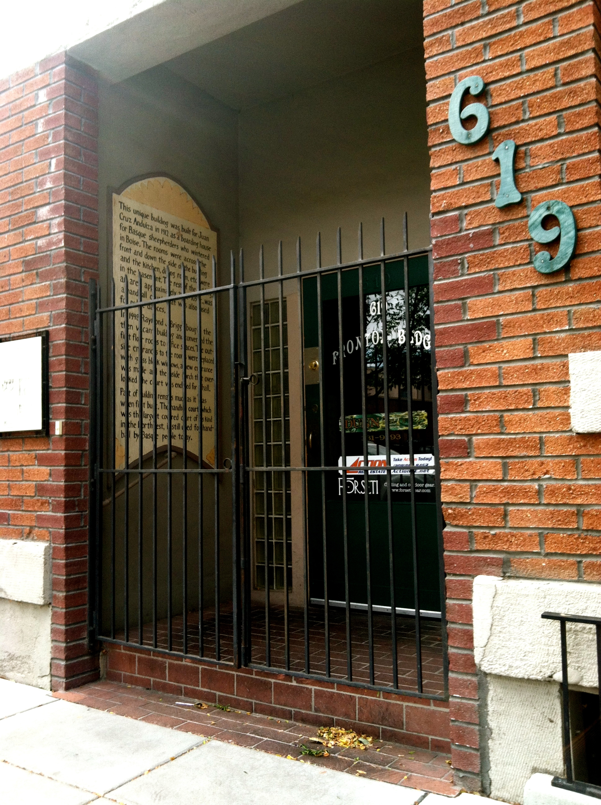 Former Anduiza Hotel building (1914), 619 Grove Street, Boise, Idaho, USA. Housed a Basque social club and frontón court.